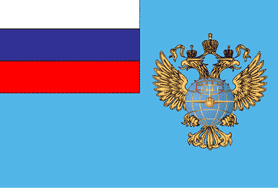 Flag_of_Federal_aeronavigation_service of Russia, 2008